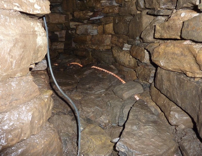 Mine Howe, Tankerness, Mainland, Orkneys, Scotland. Gallery.